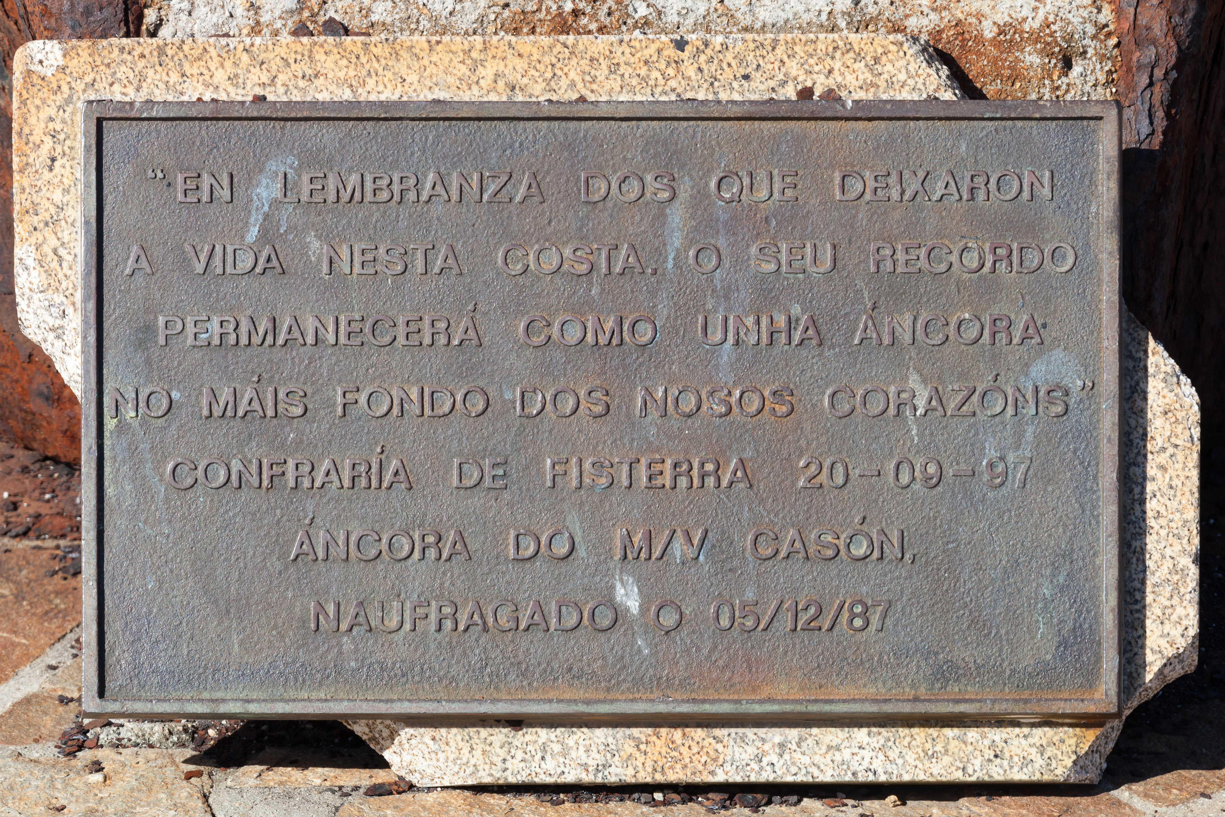 Plaque of the Anchor of the Cason, Fisterra, Galicia (Spain).